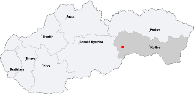 Location of the village of Gemerská Poloma.